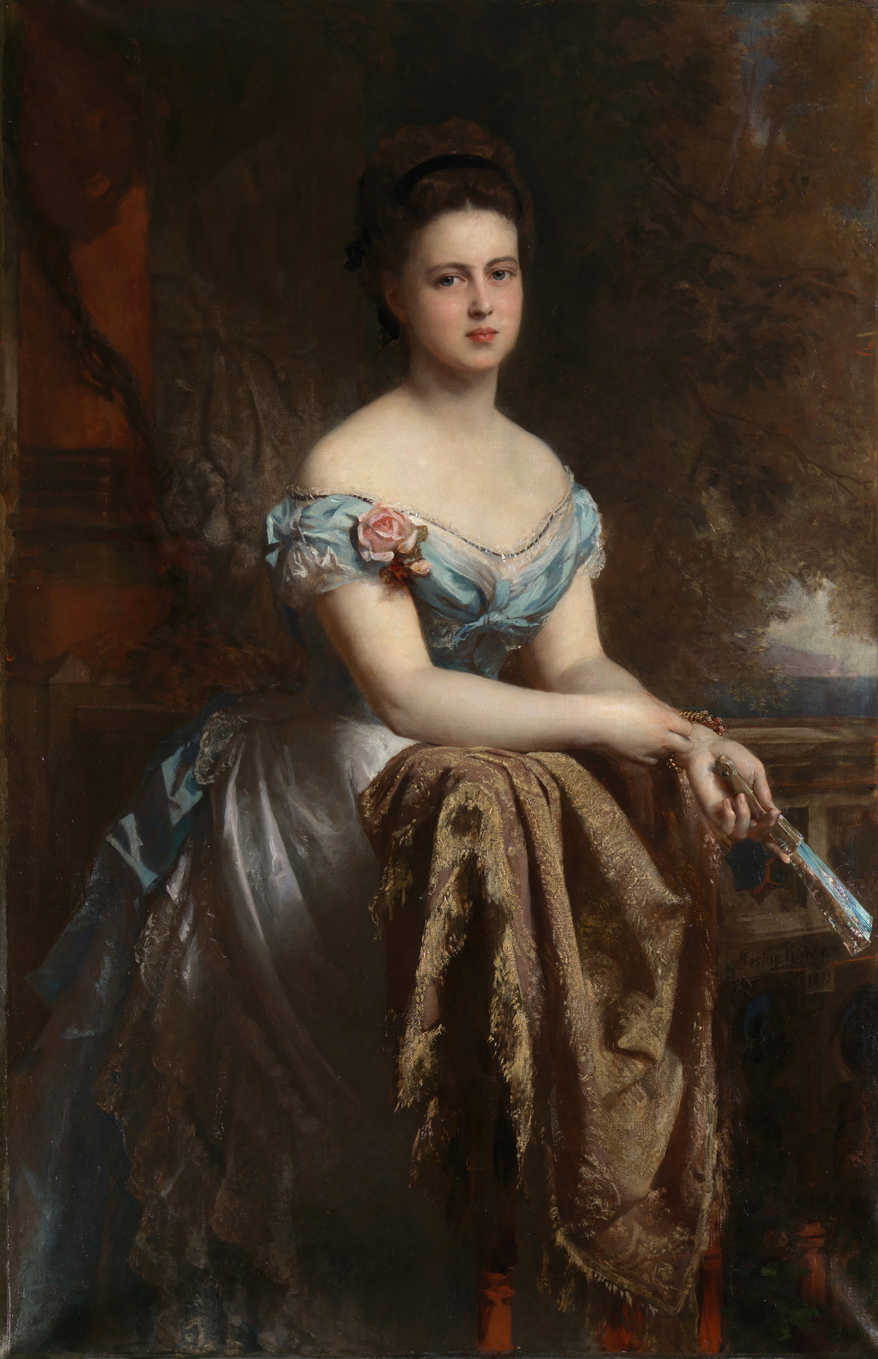 Maria Alexandrovna, Duchess of Saxe-Coburg and Gotha (nee Grand Duchess of Russia)